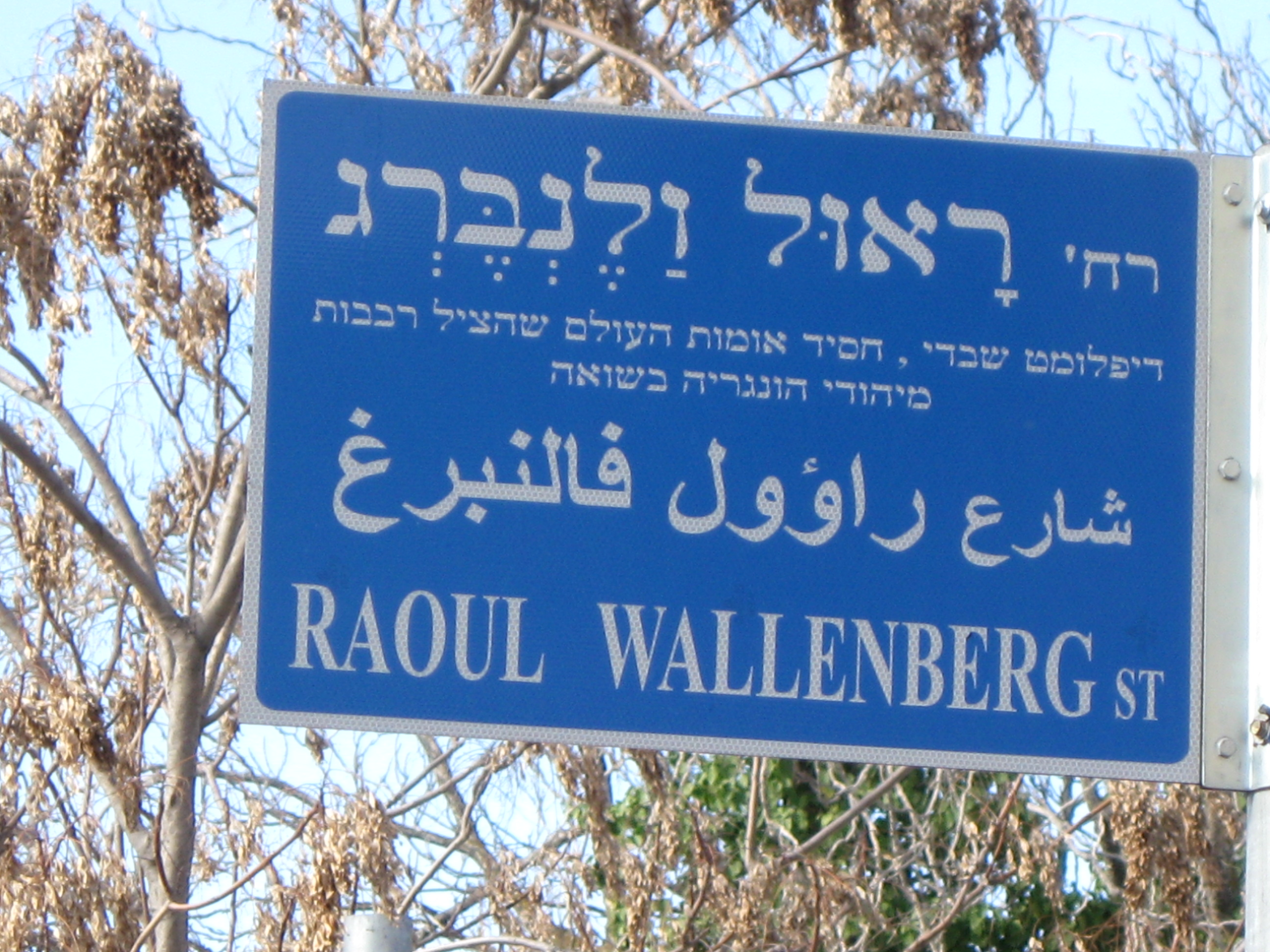 Street sign for Raoul Wallenberg St. in Jerusalem. The inscription says: "Swedish diplomat, one of the Righteous Among the Nations who saved tens of thousands of Hungarian Jews during the Holocaust."